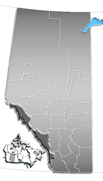 Location of Census Division No. 15, Alberta